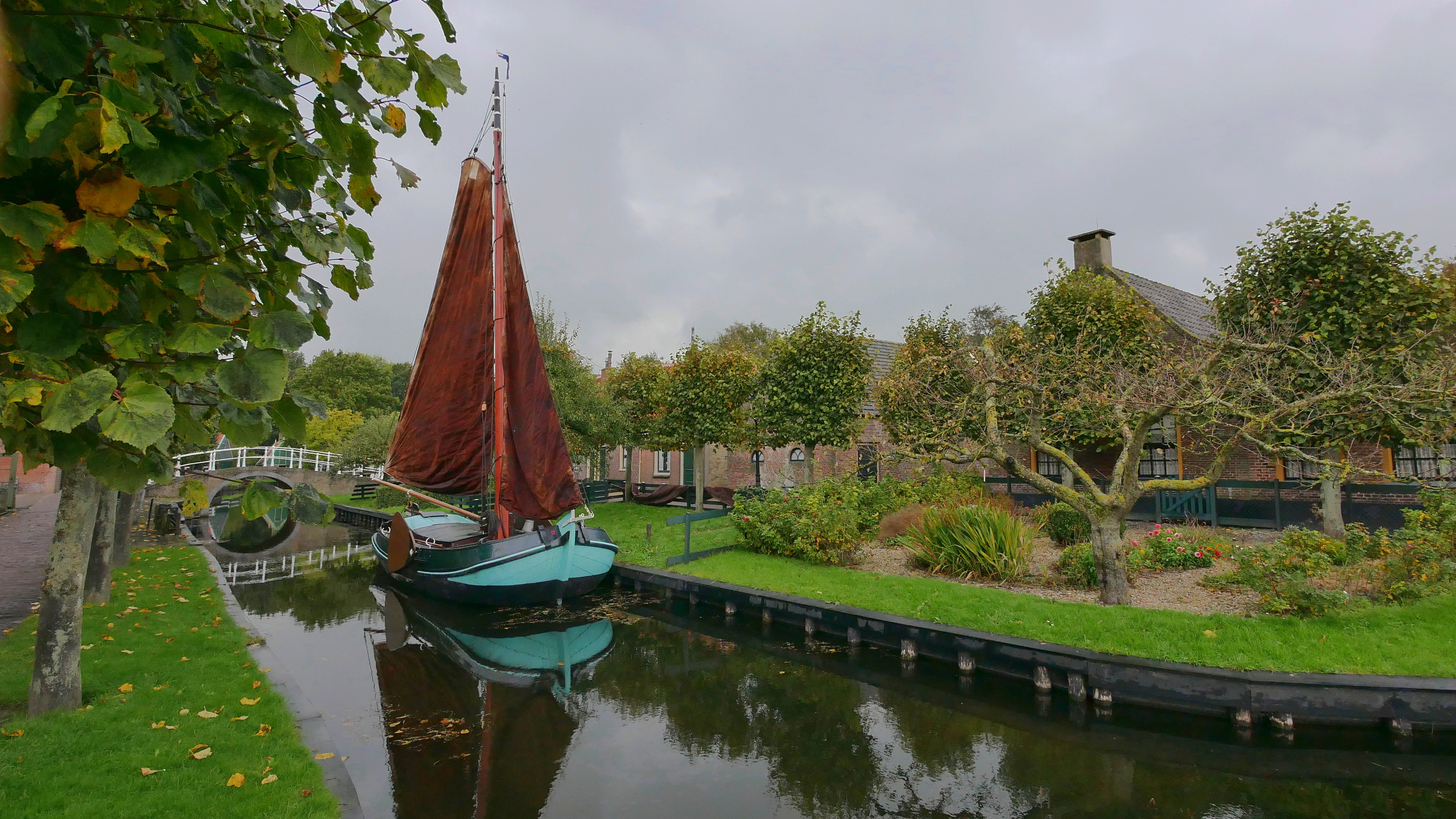 Zuiderzeemuseum - Karpfen in der Stadsgracht